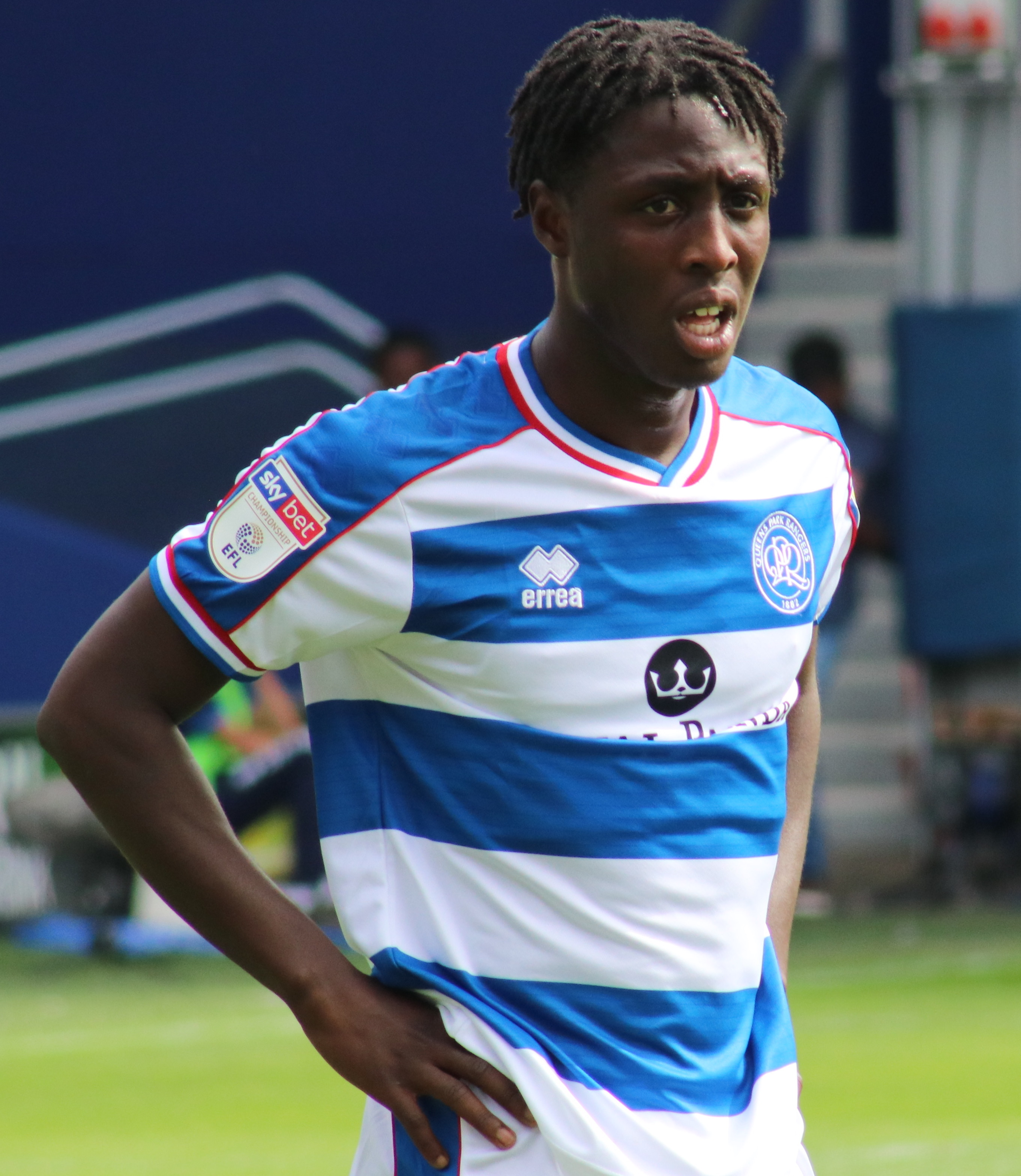 Kakay